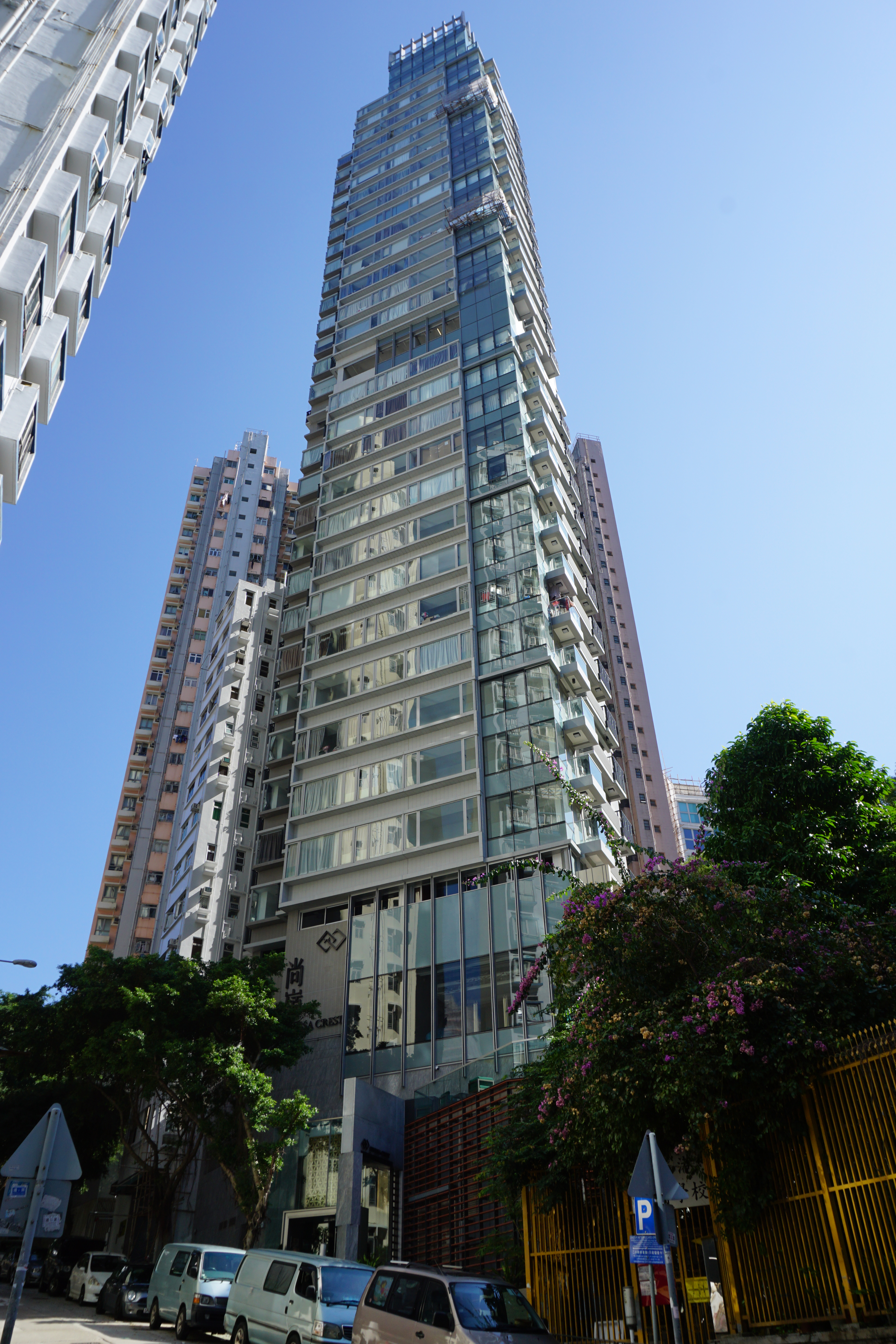 Eivissa Crest in Shek Tong Tsui, Hong Kong.